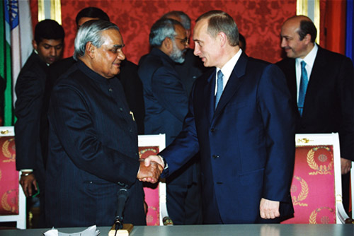 THE GRAND KREMLIN PALACE, MOSCOW. President Vladimir Putin and Indian Prime Minister Atal Bihari Vajpayee after a joint news conference.